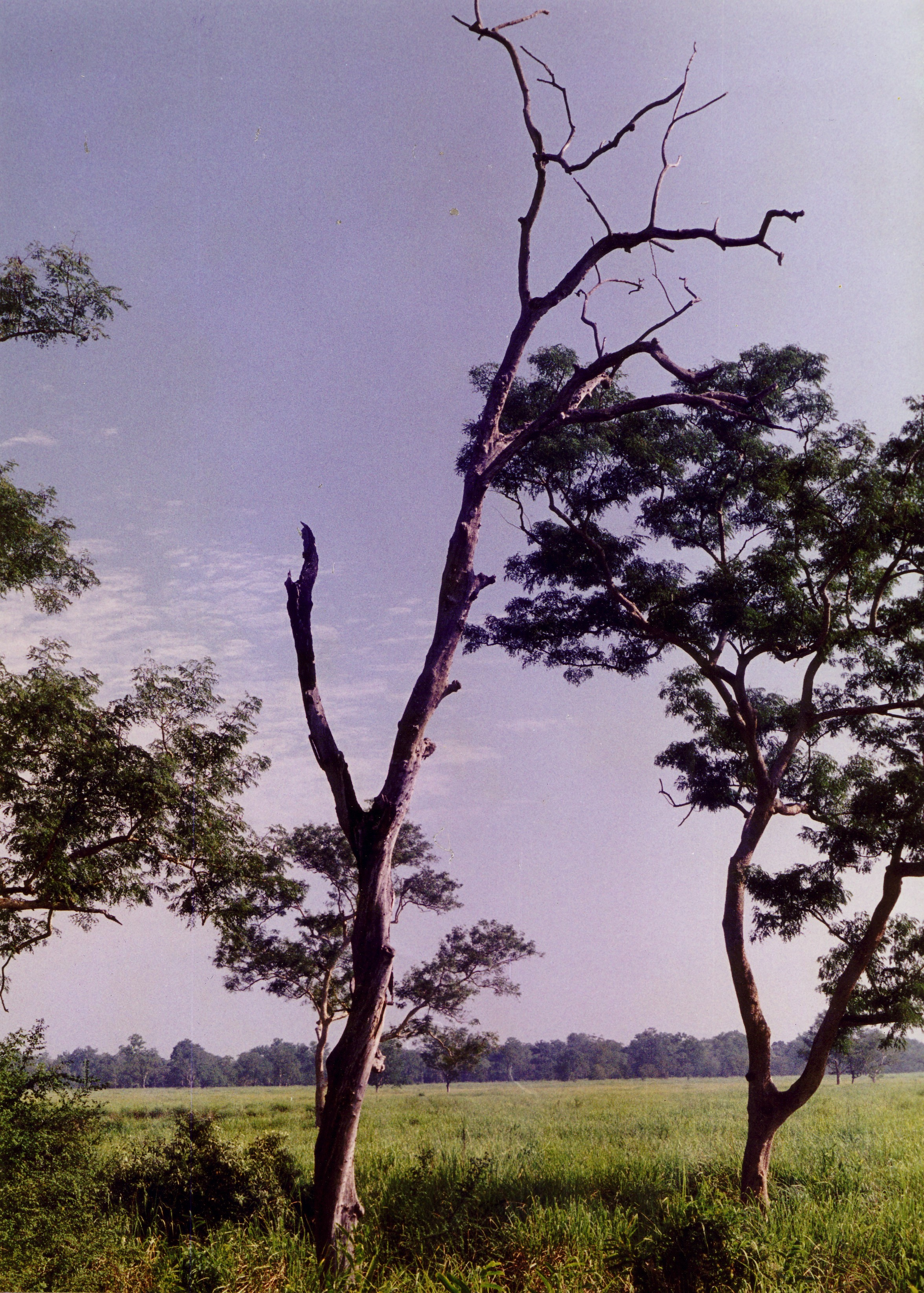 Striking view of a leafless tree viewed from a watch tower in Kaziranga National Park with the backdrop of the grasslands and the forest in the distance. Photo taken using a Canon AV-1 SLR.